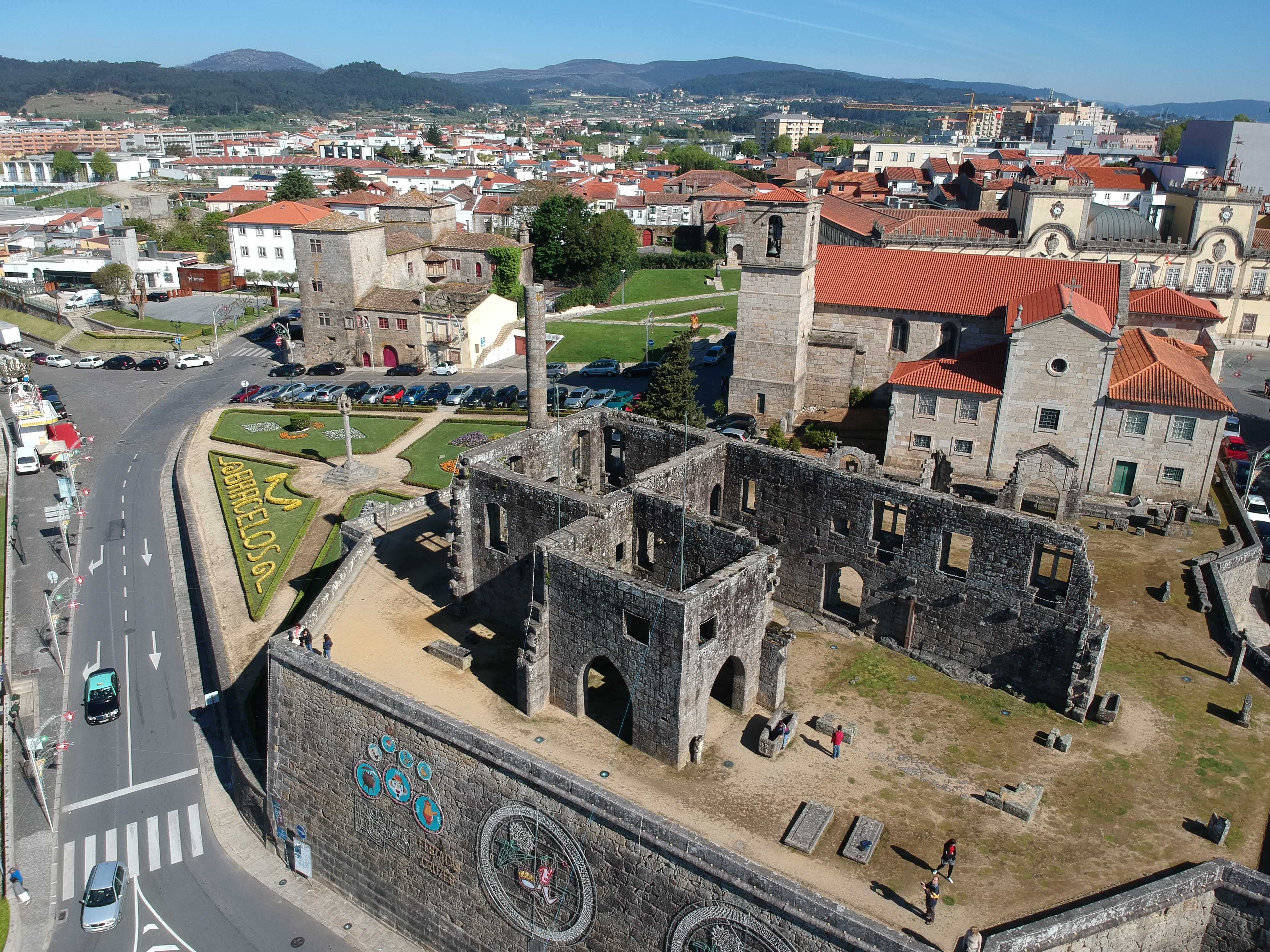 Aerial photograph of Barcelos Portugal